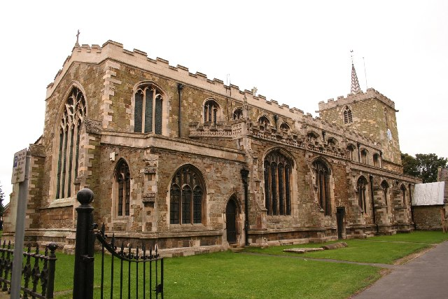 St.Mary's church, Horncastle, Lincs. A grand church worthy of the town. Largely Decorated & Perpendicular, the Early English tower is spoilt by the tiny spire.